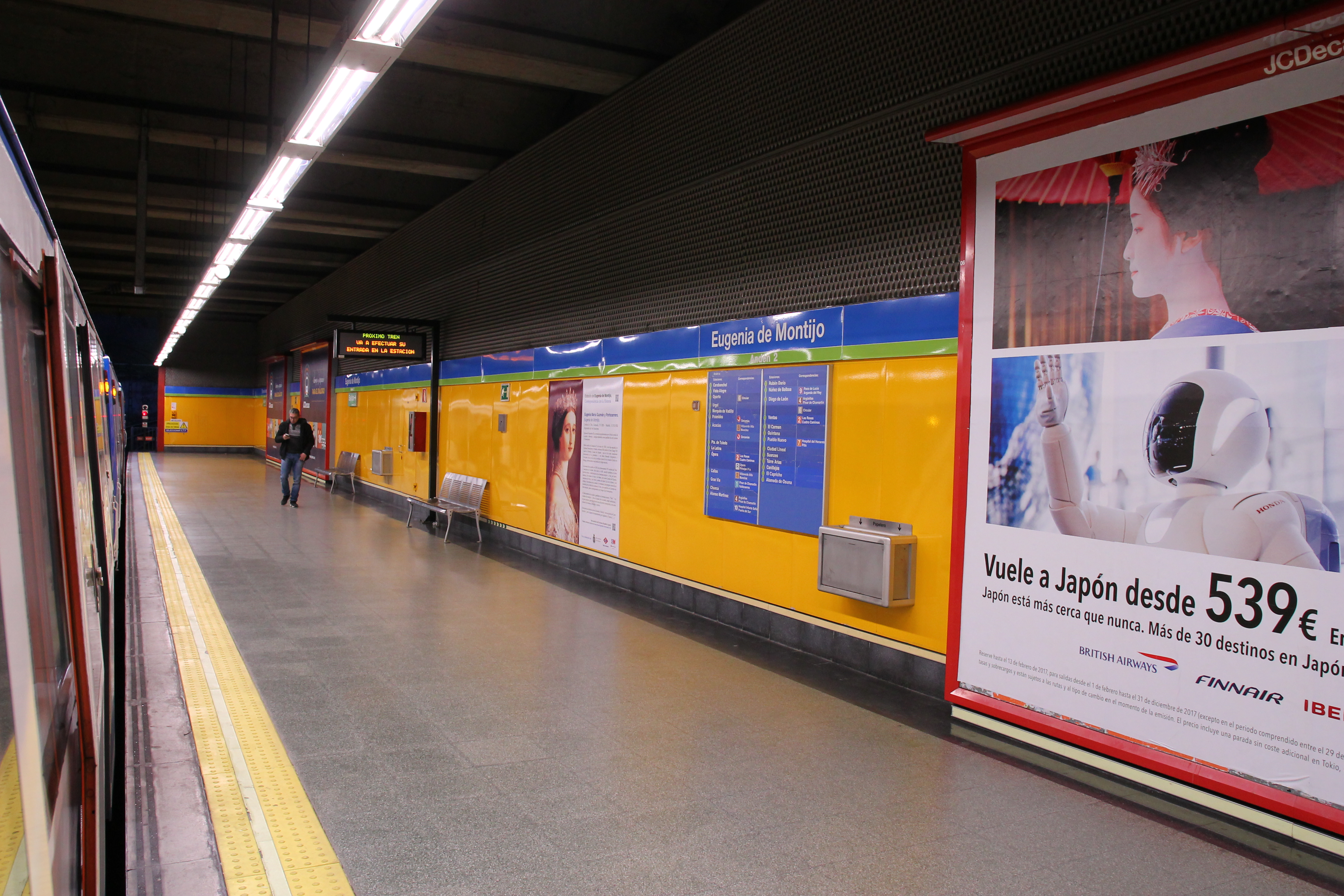 Estación de Eugenia de Montijo